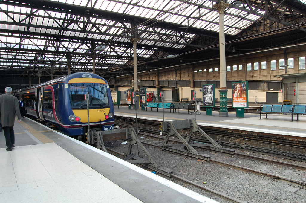 Waverly Train Station. Edinburgh, Scotland